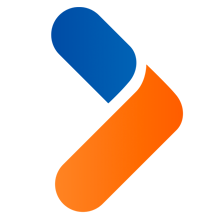 PasajeBus is Chile’s first intercity bus ticketing platform.